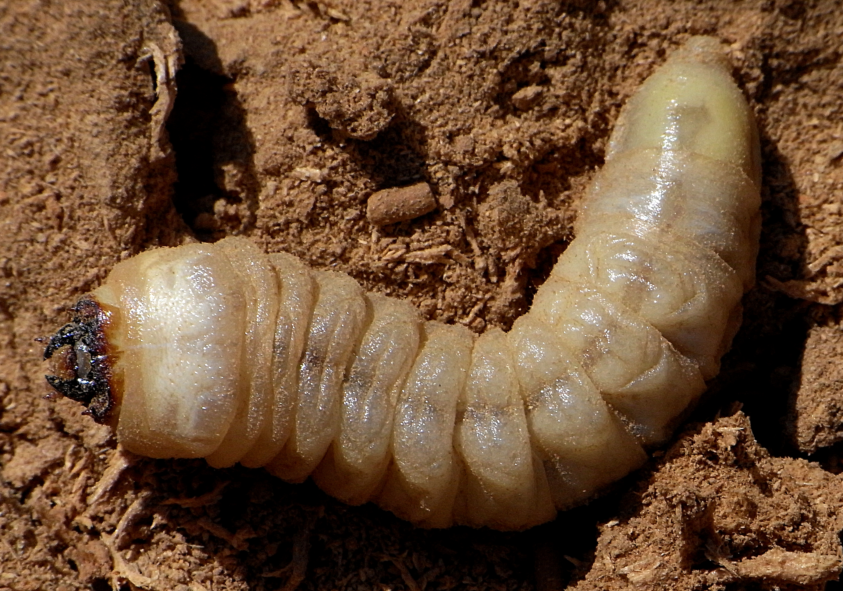 Larva of Ergates faber in old pine Ricoh R8